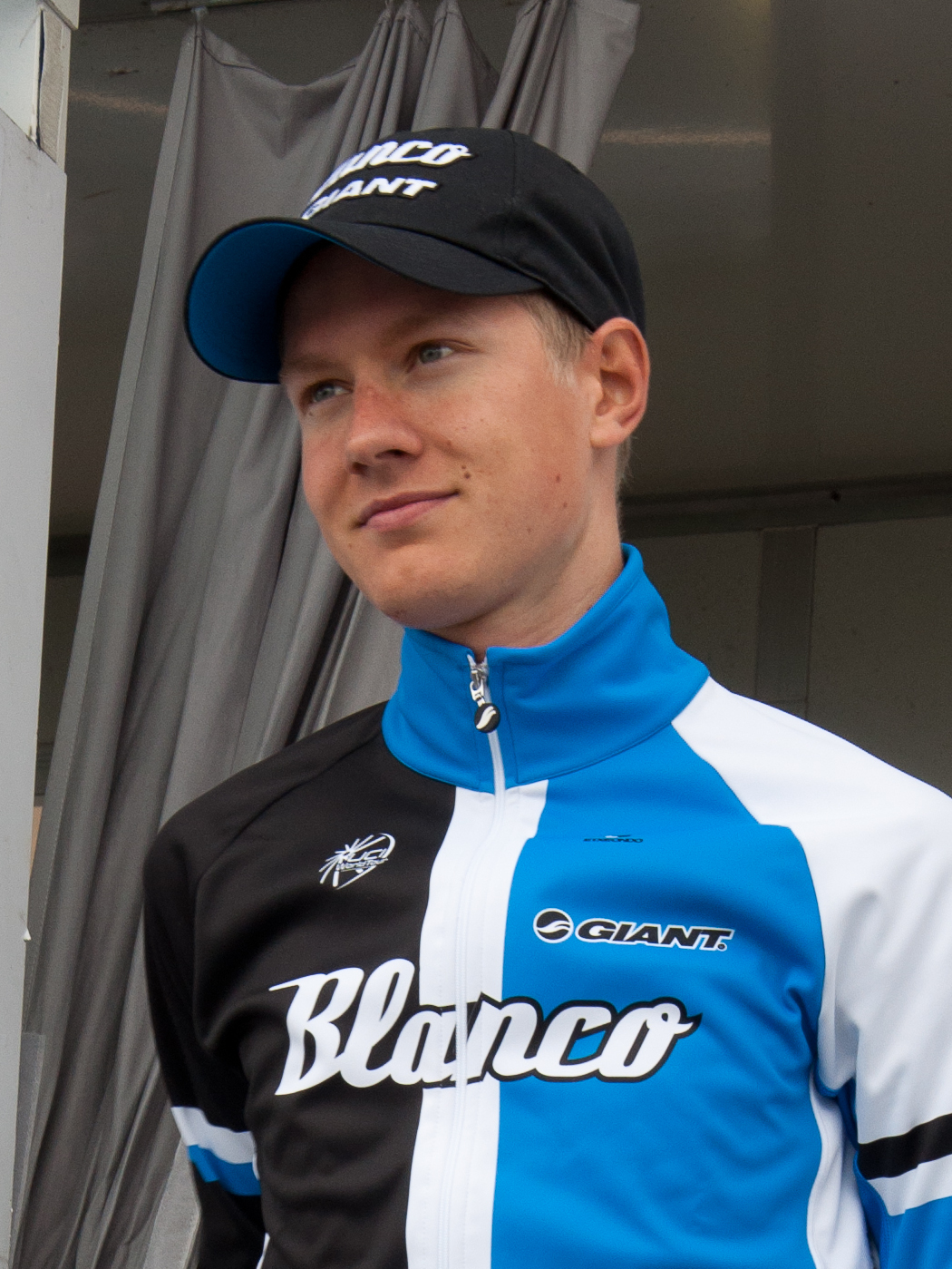 Podium ceremony of Tour de Romandie 2013's stage 5, in Geneva, Switzerland. Wilco Kelderman, the winner of the final white jersey for the young rider classification, entering on the stage.